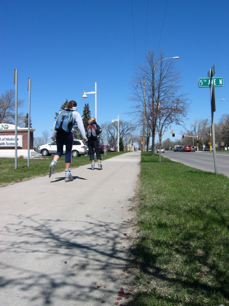 University of North Dakota youth rollerblading in front of Medical School building.